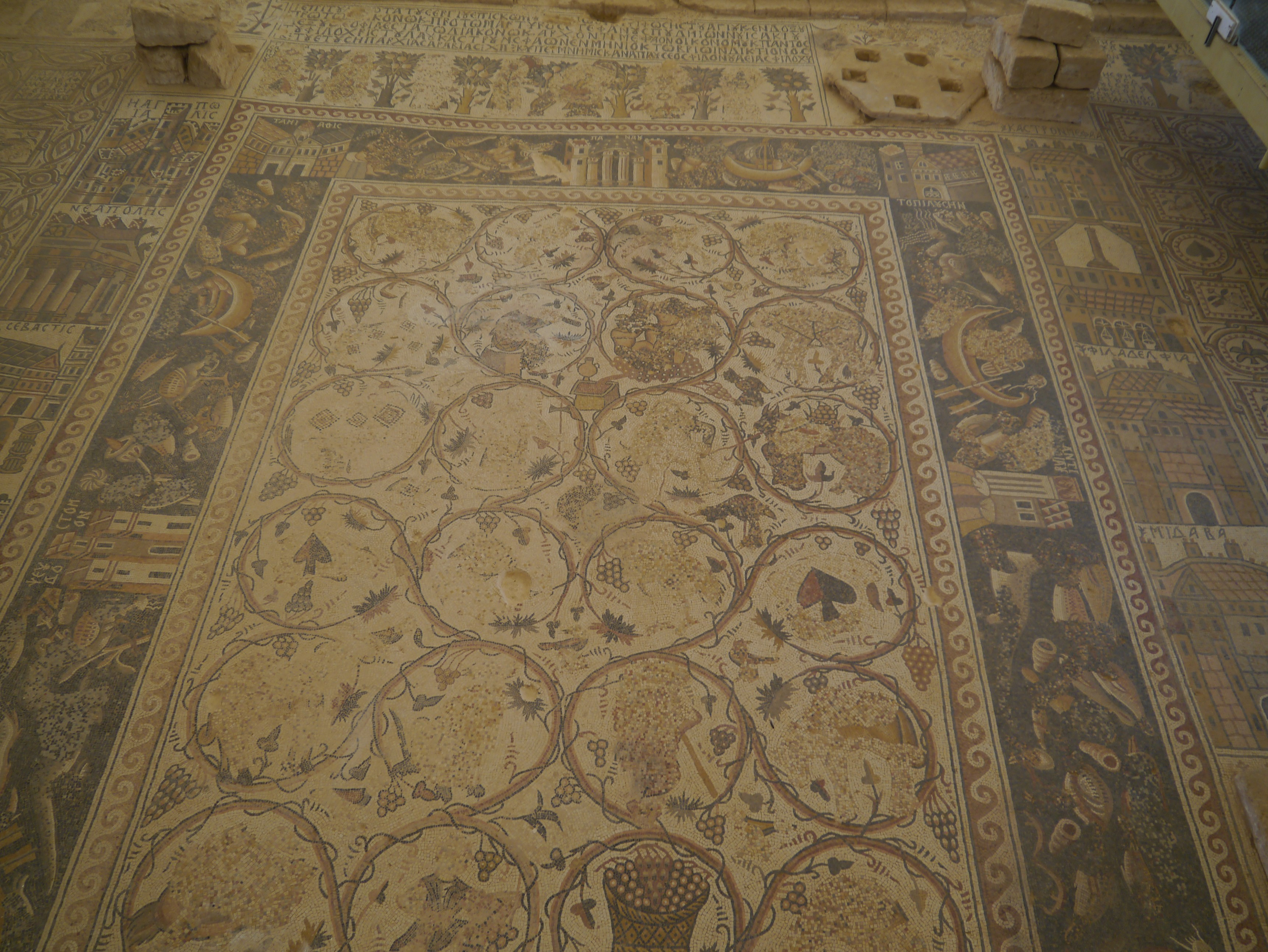 Mosaics of St. Stephen, Umm ar-Rasas, North western Jordan